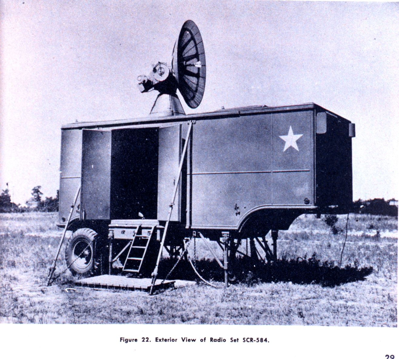 Exterior view of radio set SCR-584, a mobile radar unit. In: "AAF Manual 105-101-2 Radar Storm Detection," by Headquarters, Army Air Forces, August 1945. Library Call Number M15:621.384 U58r.